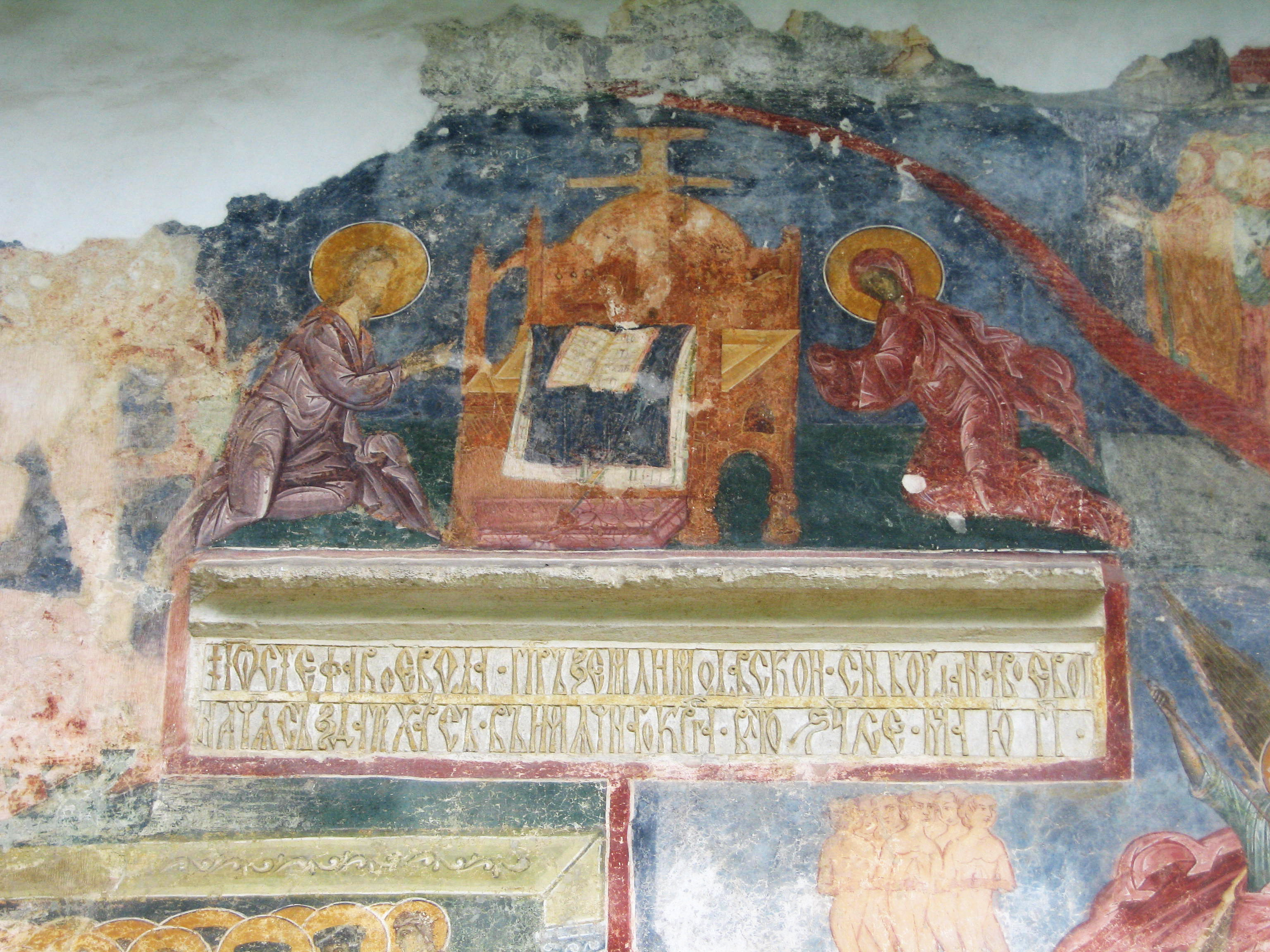 The Church of Pătrăuţi, Romania, UNESCO monument